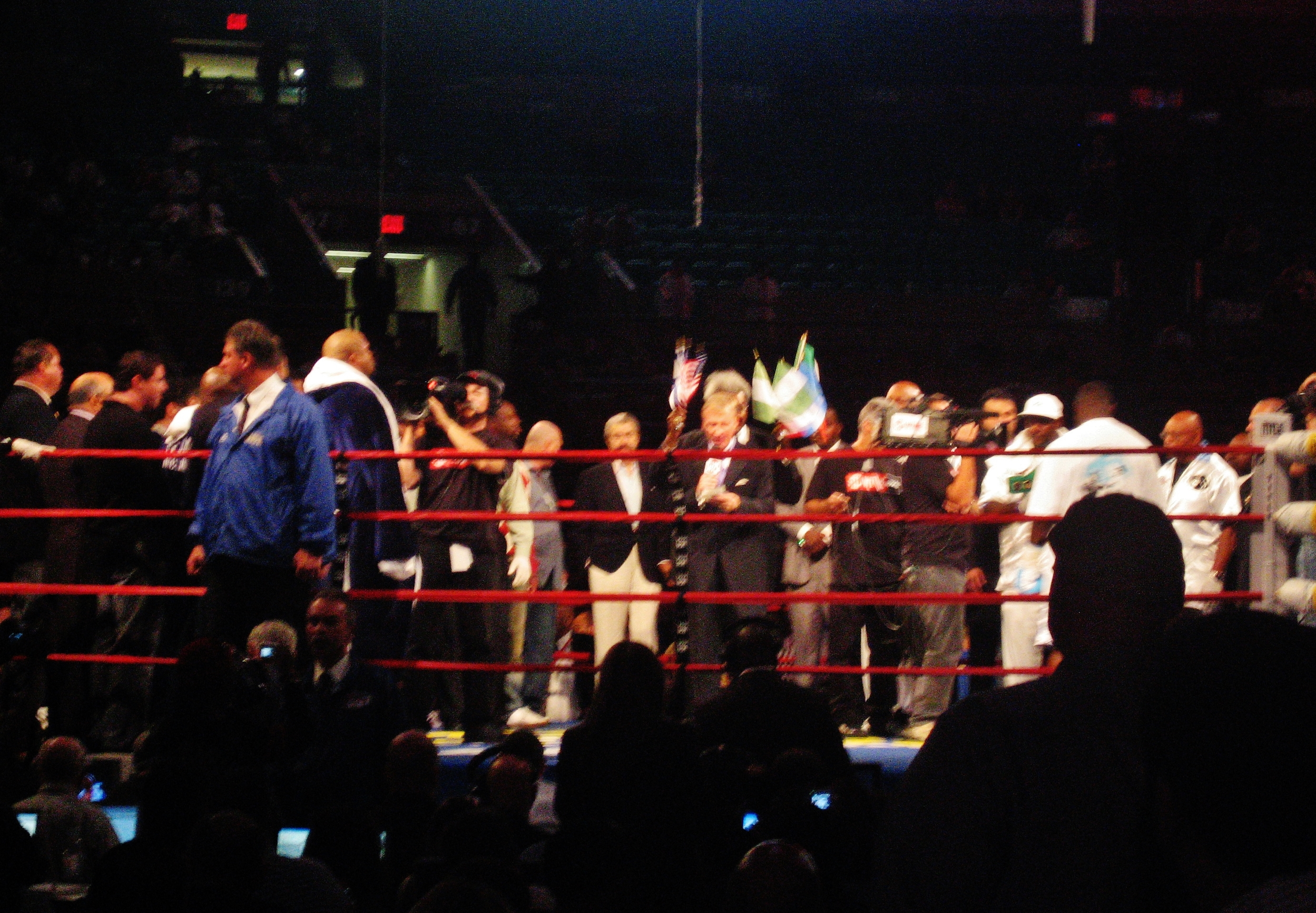 Jimmy Lennon Jr. making the fighter introductions before the fight between Jameel McCline (on the left) and Samuel Peter.